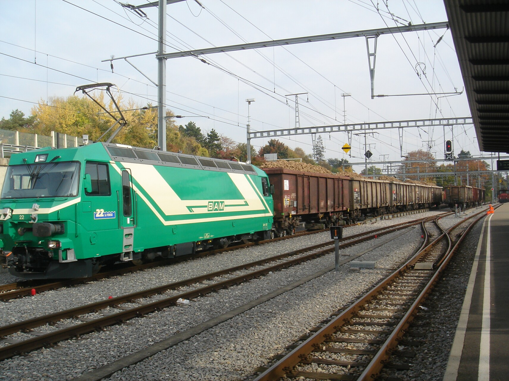 Unloading of a sugar beet train that came to Morges (Switzerland) on meter gauge transporter bogies behind MBC Ge 4/4 22